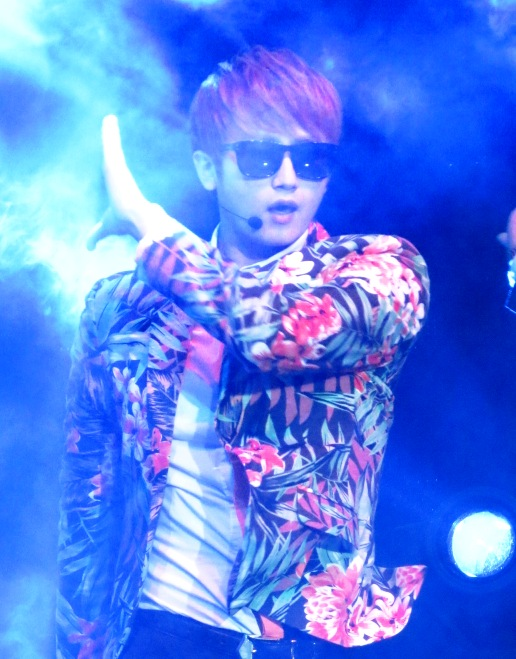 Heo Young-saeng during his fanmeeting held on August 20, 2013 at the Metropolitan Theatre in Mexico City.